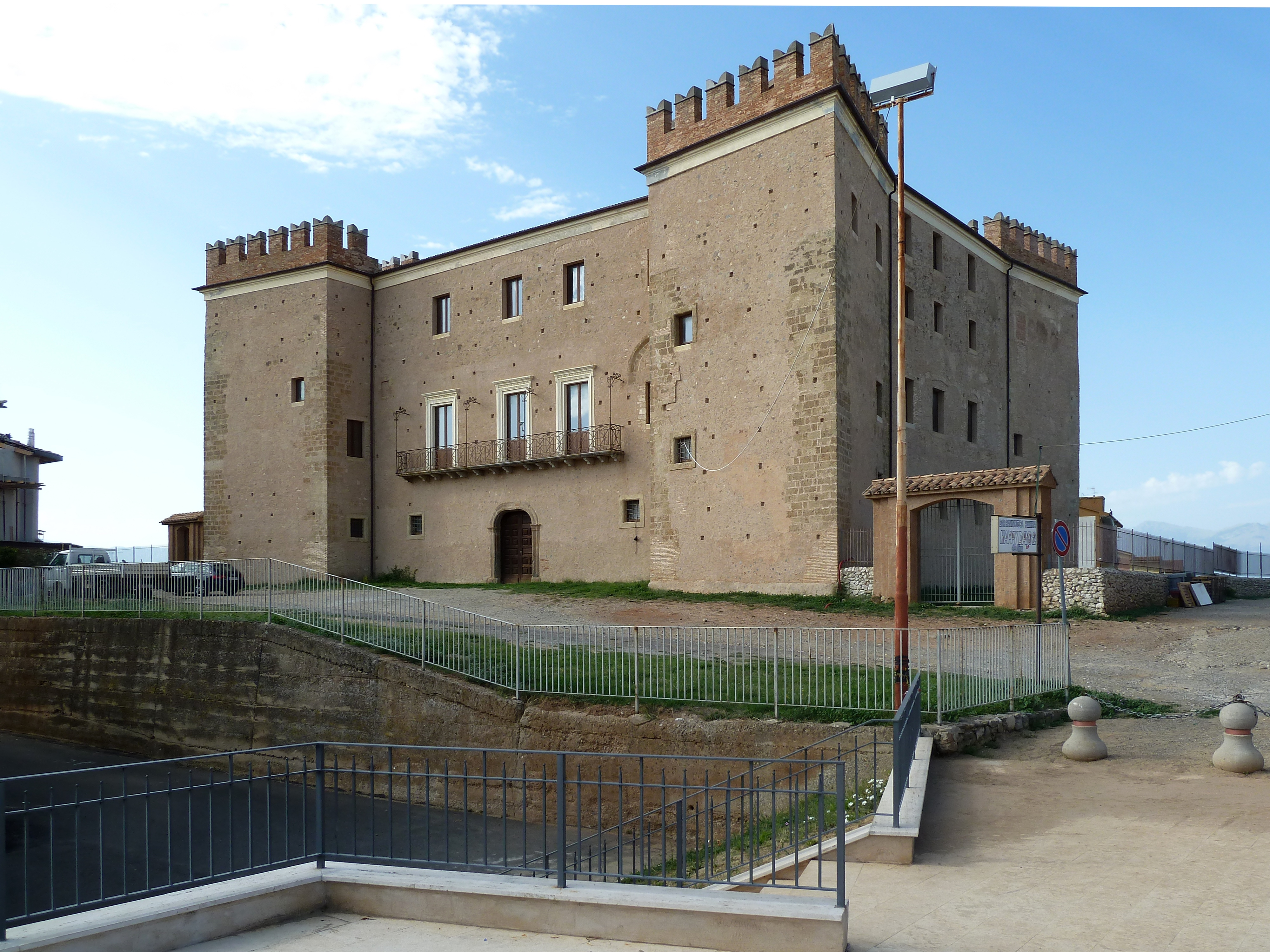 Castel in Lan Lorenzo del Vallo